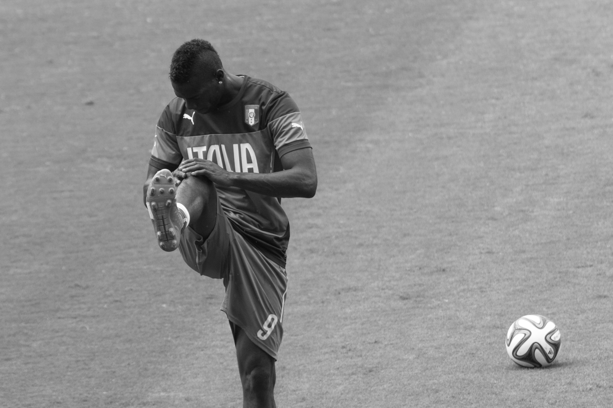 Italy and Uruguay match at the FIFA World Cup 2014-06-24, Arena das Dunas, Natal, Brazil.